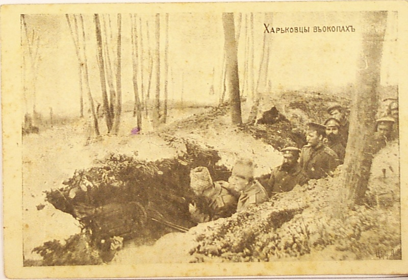 Kharkov military people WWI. Russian Empire postcard.